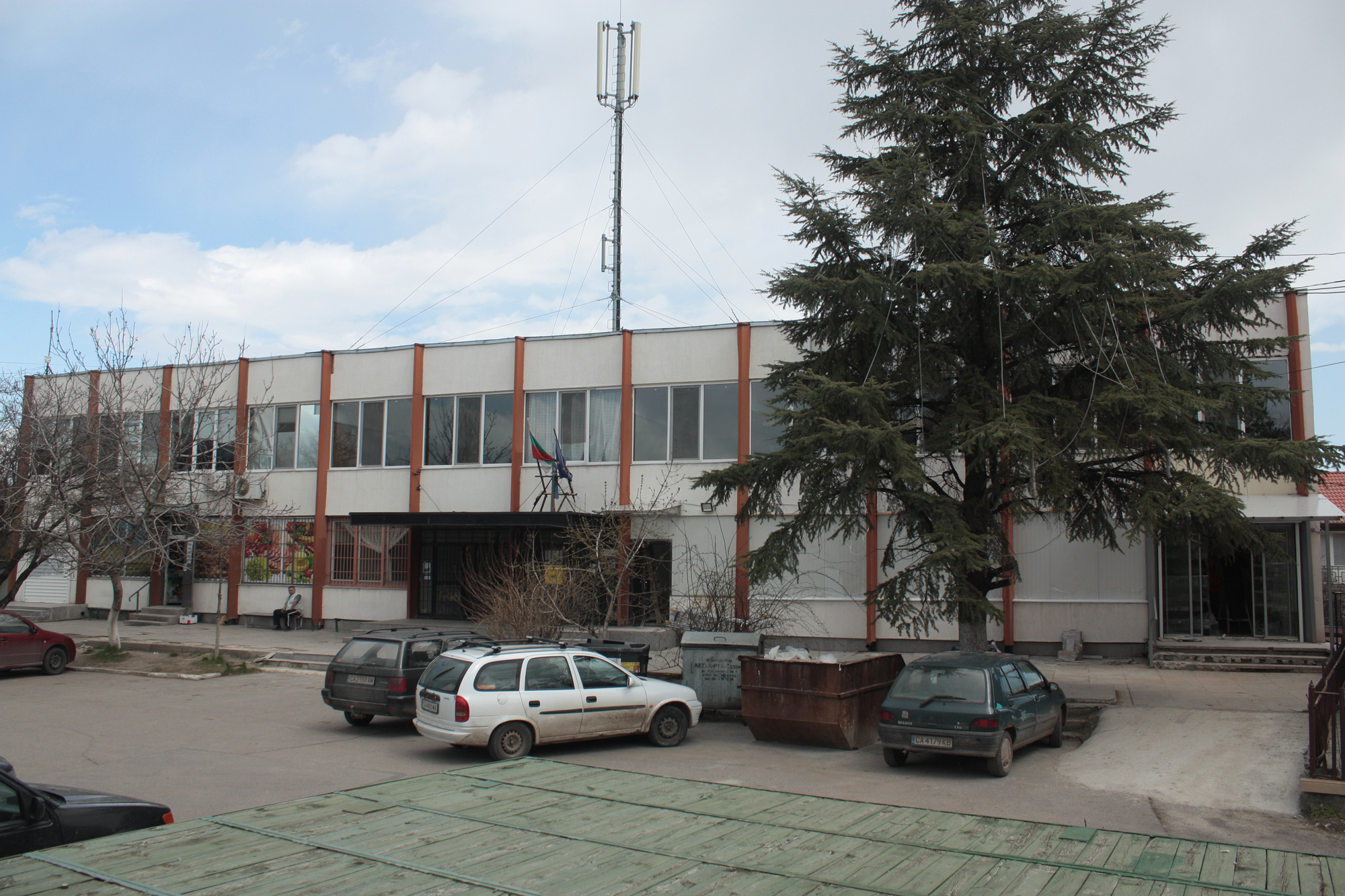 Voluyak townhall (municipality office)